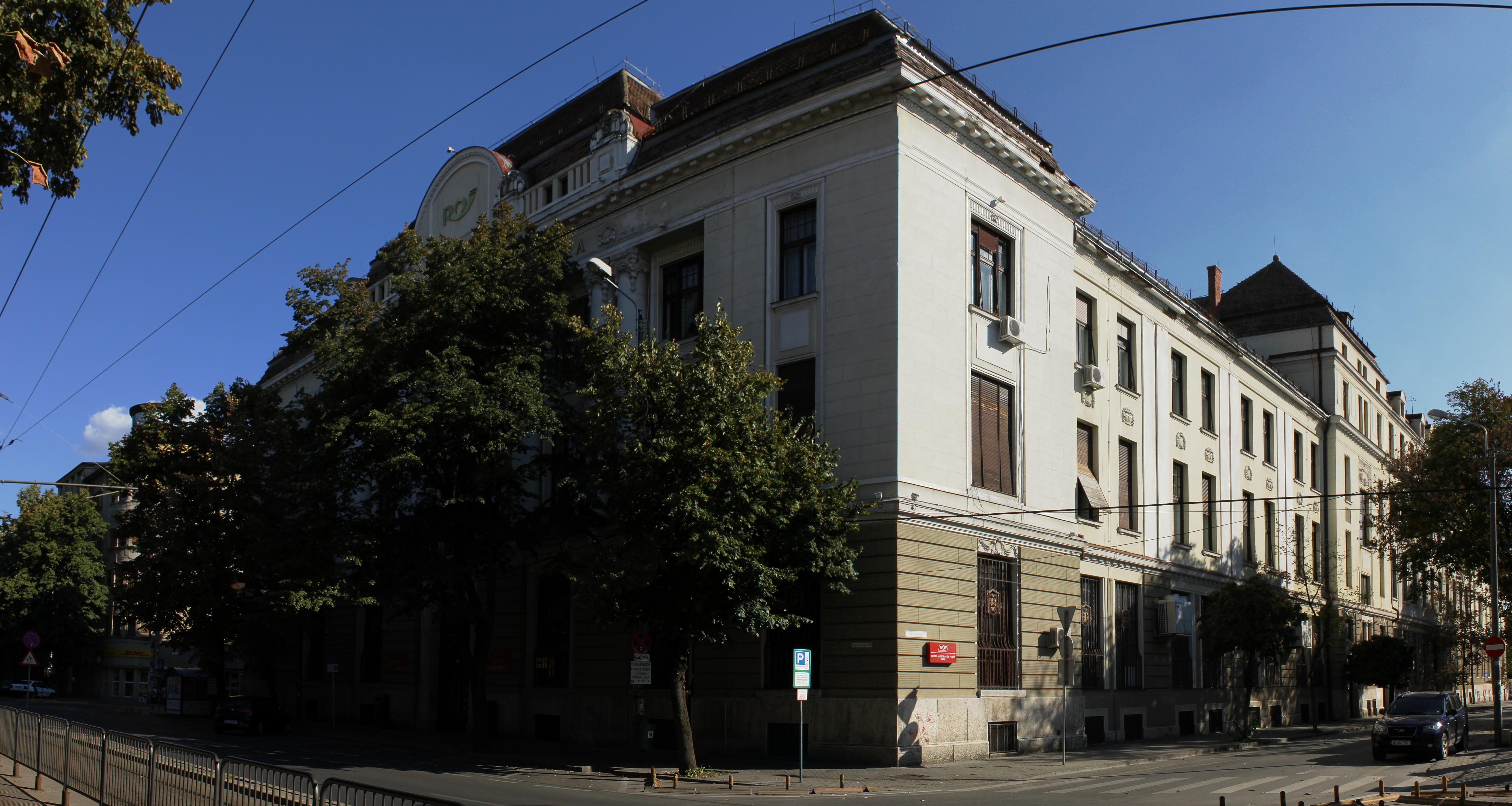 The Post Palace, part of a urban ensemble IX, Timișoara, Romania